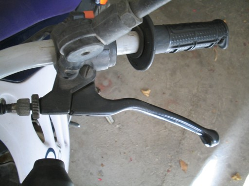 Lever clutch connection with steel wire and setting the tenance